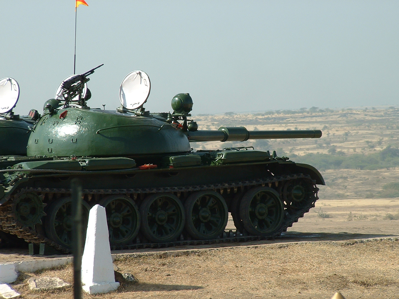 Two Indian T-54s, the one in the foreground is fitted with a fake fume extractor on the barrel.